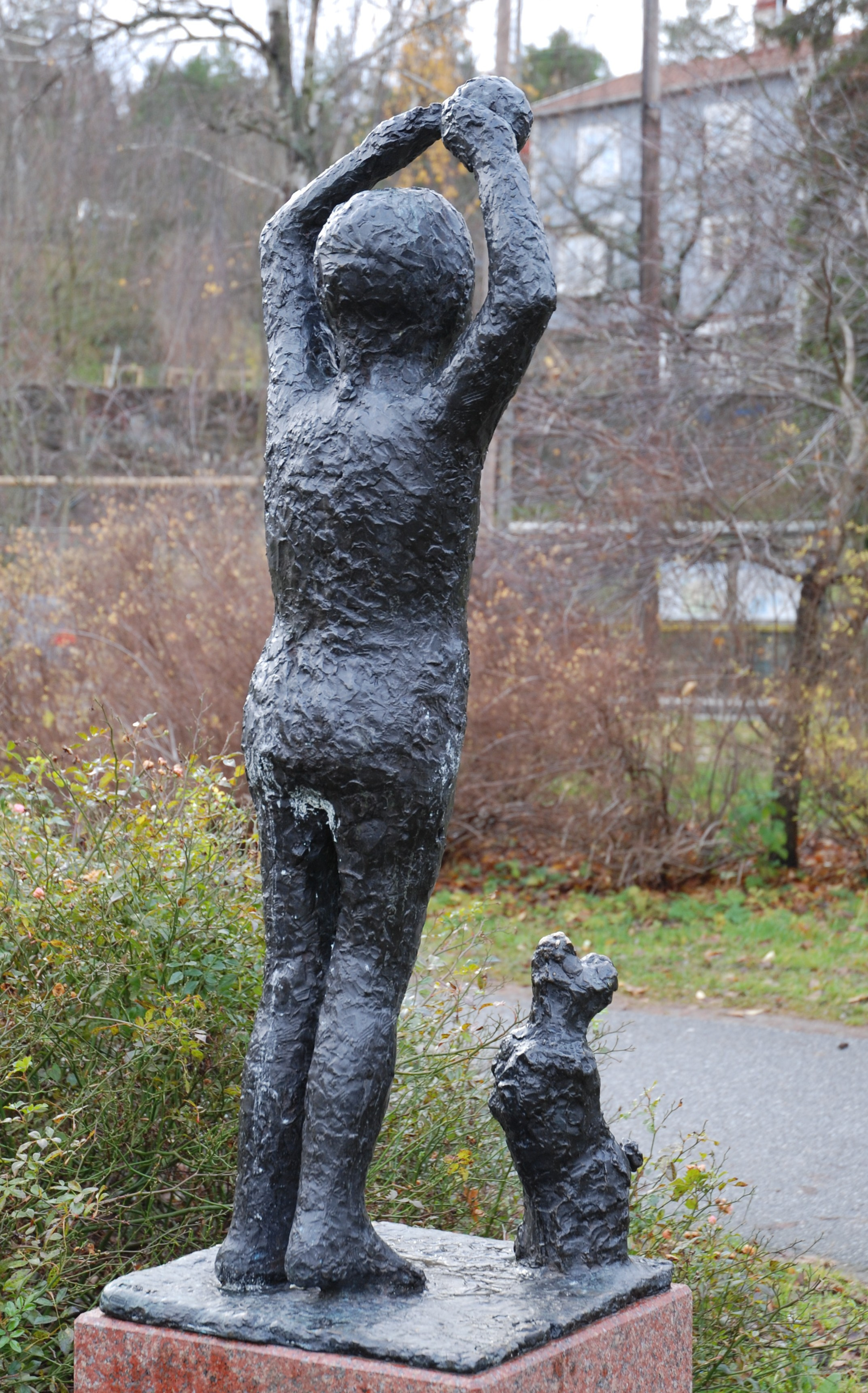 The sculpture Girl and dog (Flicka med hund) by Swedish sculpturer Ninnan Santesson (1891 - 1969), from around 1968, at the Stockholm suburb of Mälarhöjden, Sweden. Photo: Bengt Oberger.